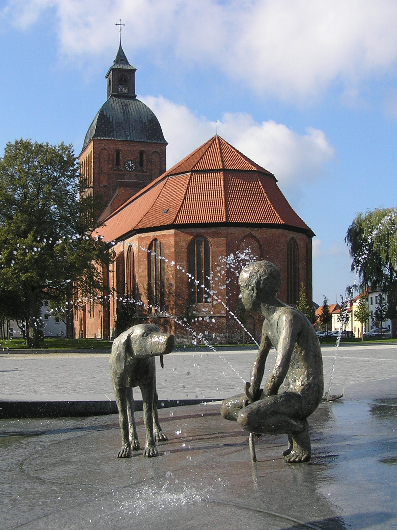 Market place in Ribnitz-Damgarten, Germany: view from the fountain to St Mary's church. The Sculptures were made by Thomas Jastram. The fountain was produced by the Stone-Company Rechtglaub-Wolf from the Hanseatic town of Lübeck.